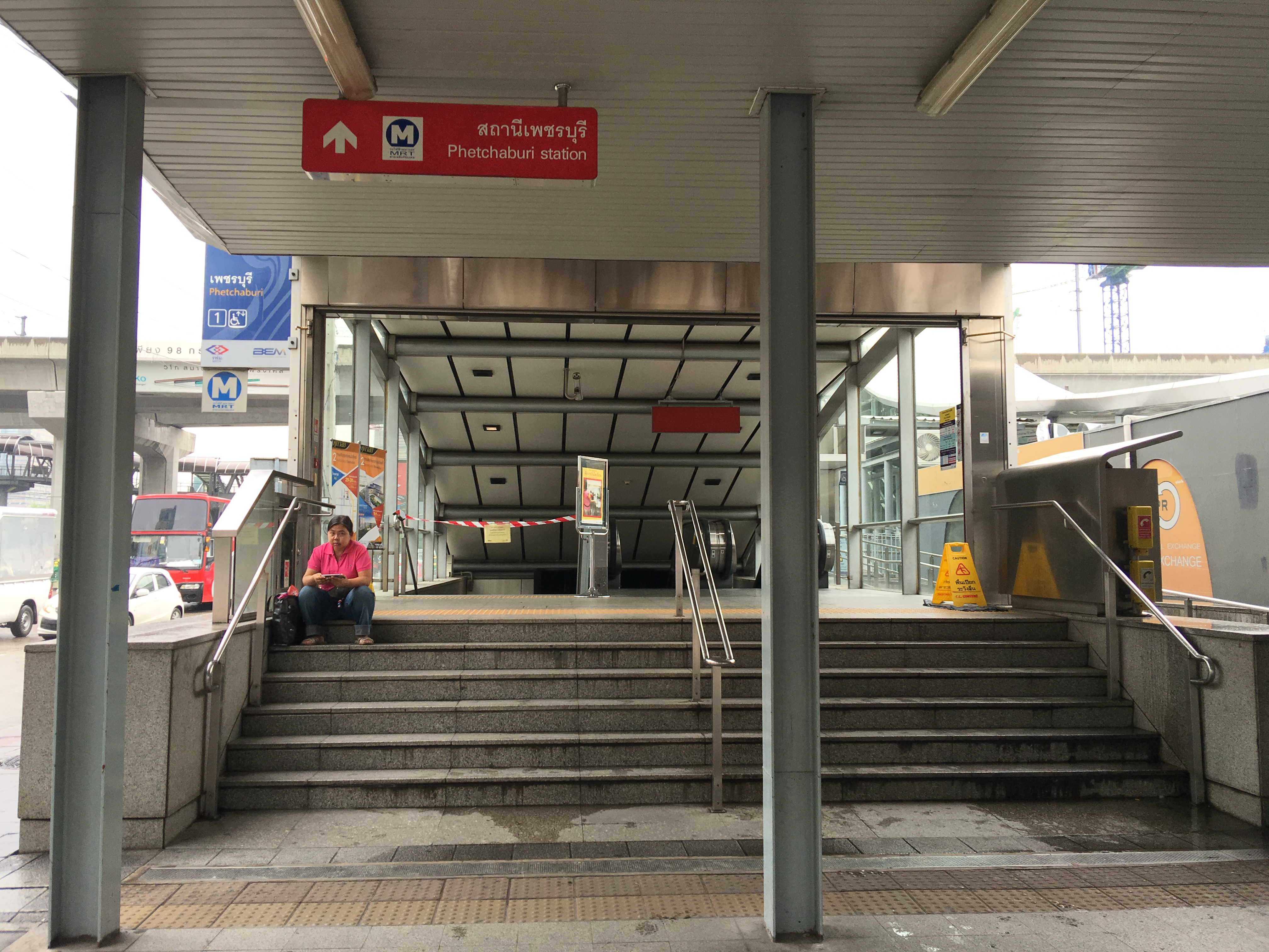 The entrance no.1 of Phetchaburi MRT Station